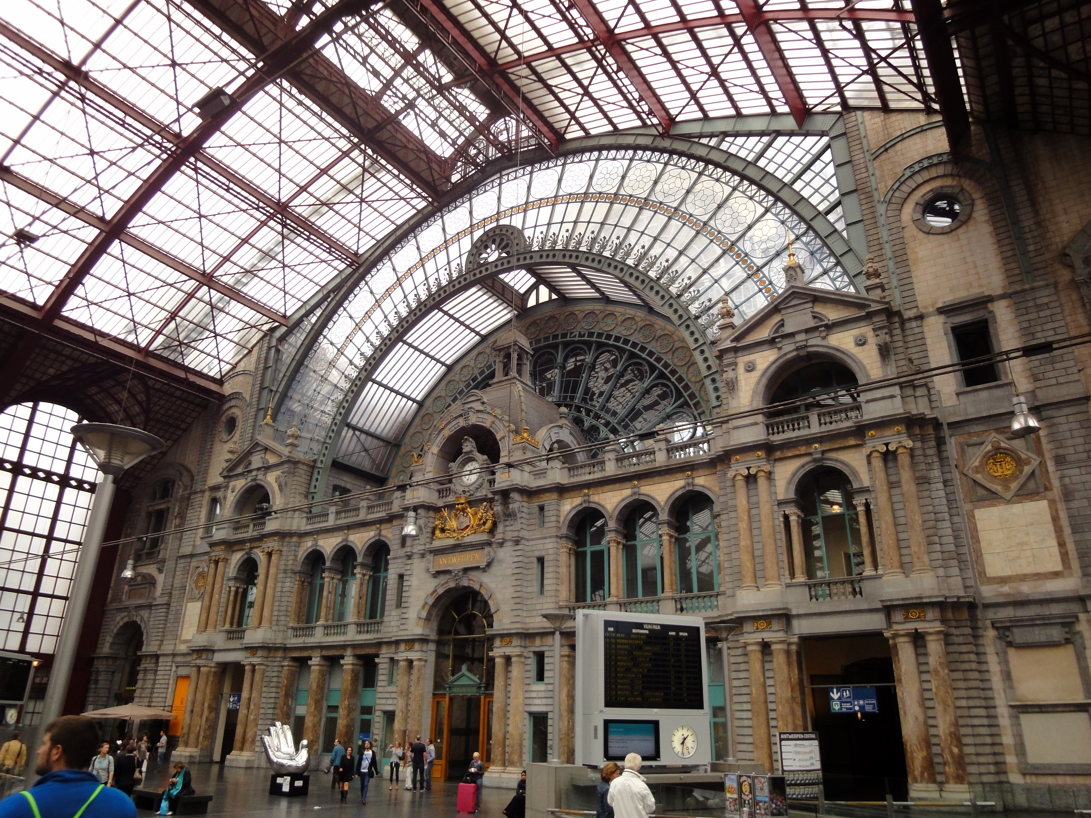 Inside of the Antwerpen Centraal Station, the main train station of Antwerp.